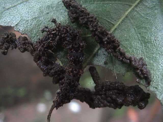 Frass chains made by Commander caterpillar as defence